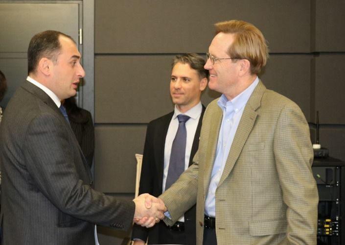 Dimitri Kumsishvili (left)